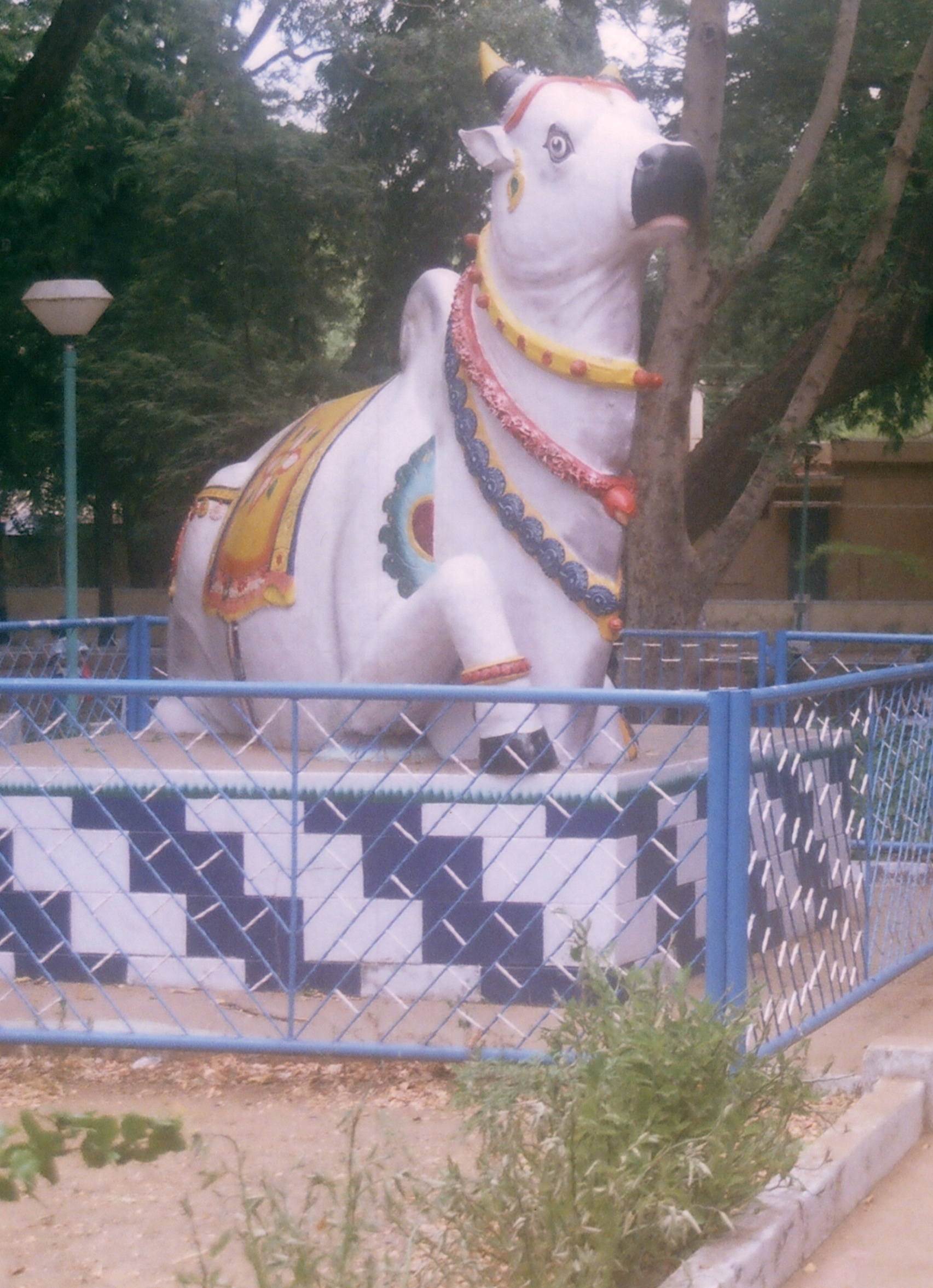 Nandi statue in the gardens near Upper Anaicut (also known as Mukombu), near Trichy, Tamil Nadu, India. This photo seems to have an illusion where the Nandi seems to be behind the tree, with just the face in front of it. The illusion was not intended in this photograph, taken in September 2006.